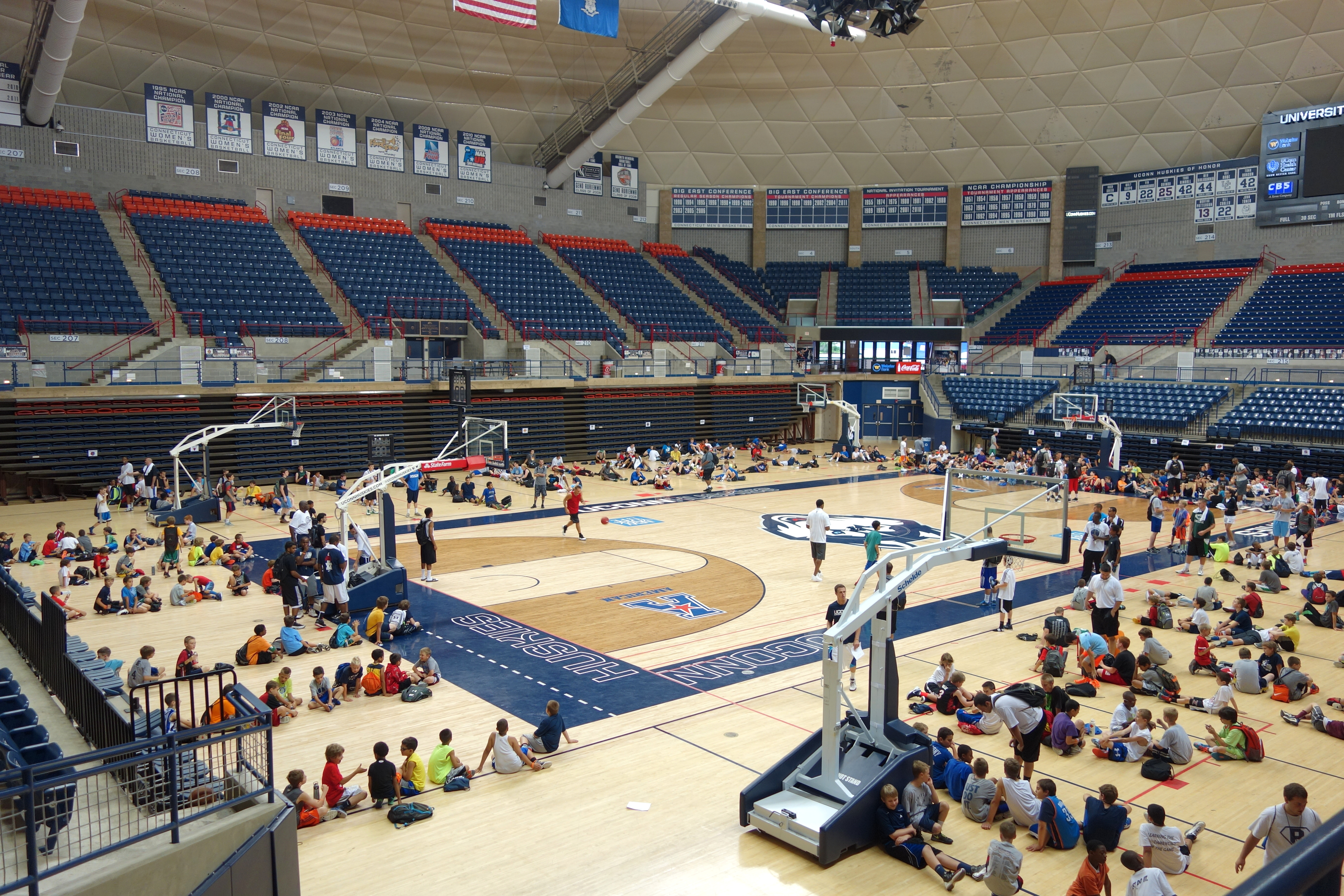 Building on the campus of the University of Connecticut, Storrs, Connecticut, USA.